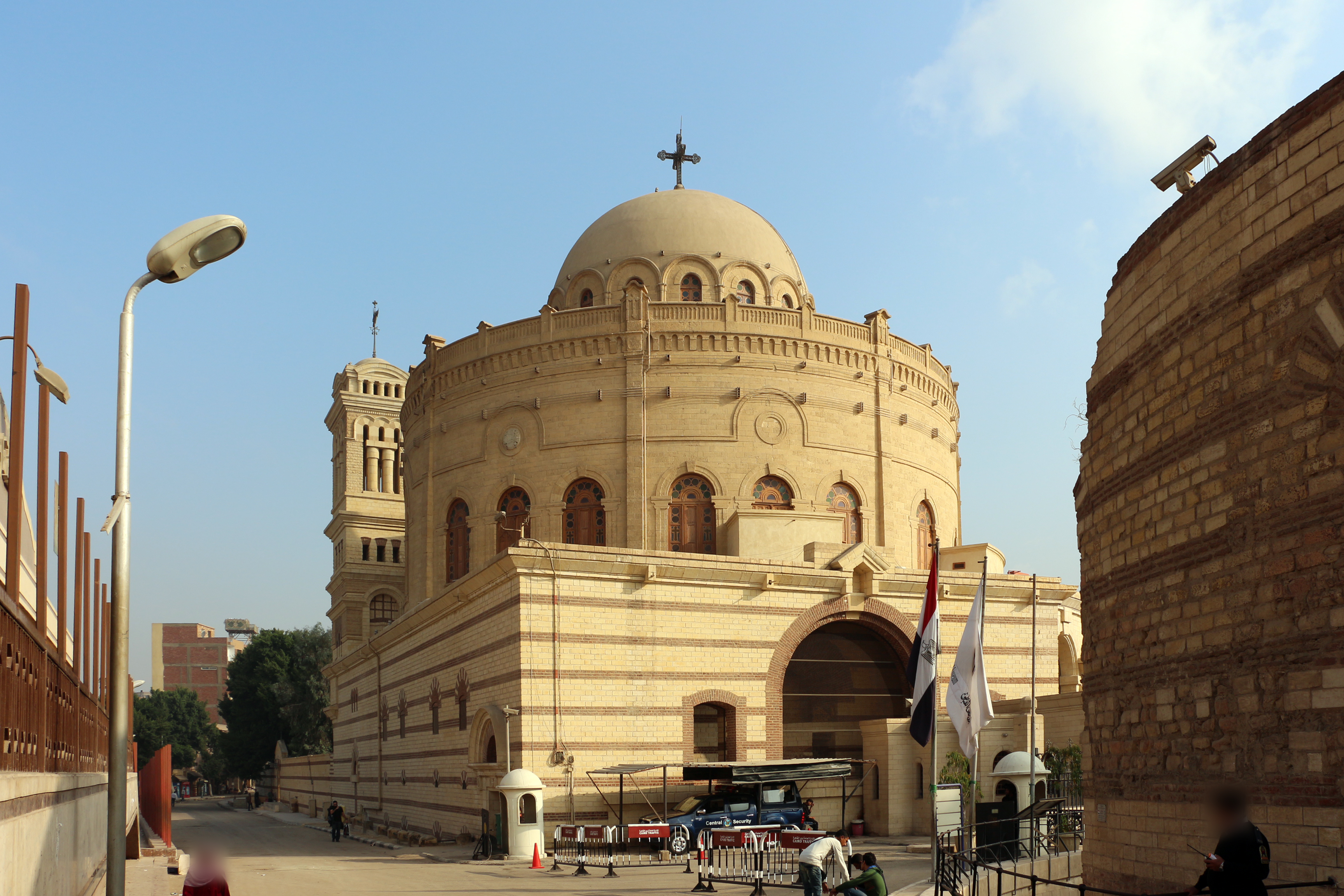 Saint George Church in Coptic Cairo